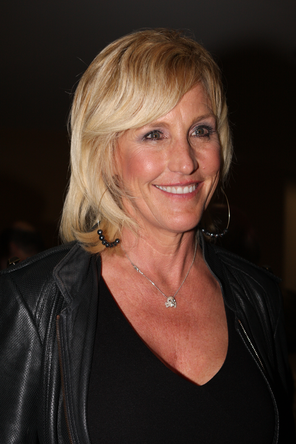 Erin Brockovich Legal Eagle And Environmentalist Speaks At University of Sydney